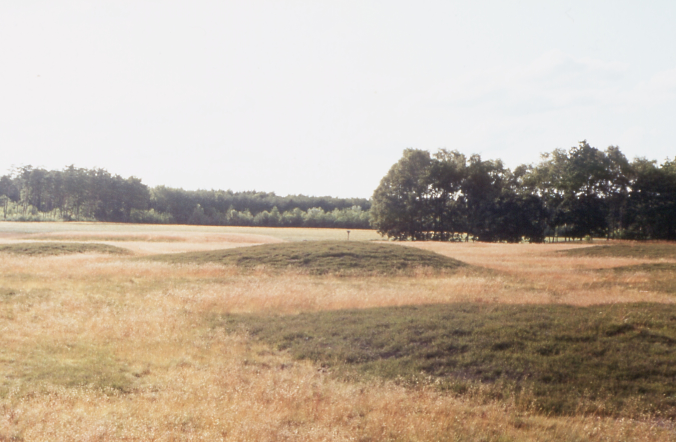 Prehistorical gravefield with low tumuli, embedded in the archaic surface of that glacially formed sandy region southwest of Bremen. The graves are from late stone age, bronze age, and pre-roman iron age, most of them between 9th and 3rd century BC.